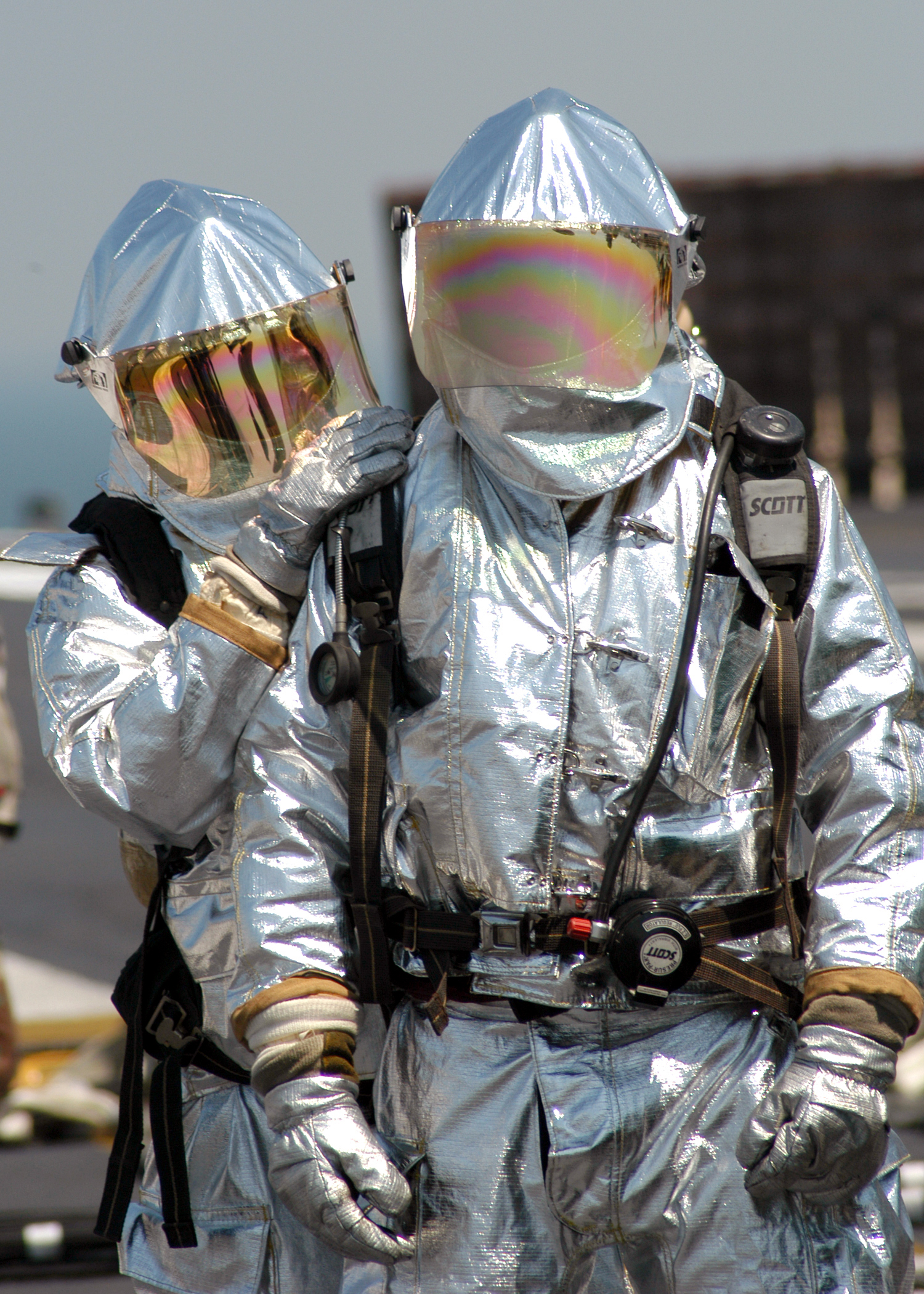 At sea aboard USS Enterprise (CVN 65) Apr. 18, 2004 - Members of the crash and salvage team aboard USS Enterprise (CVN 65) advance on a mock aircraft accident during a mass casualty drill aboard the nuclear powered aircraft carrier. Enterprise is currently underway in the Atlantic Ocean. U.S. Navy photo by Photographer's Mate Airman Justin McGarry. (RELEASED)